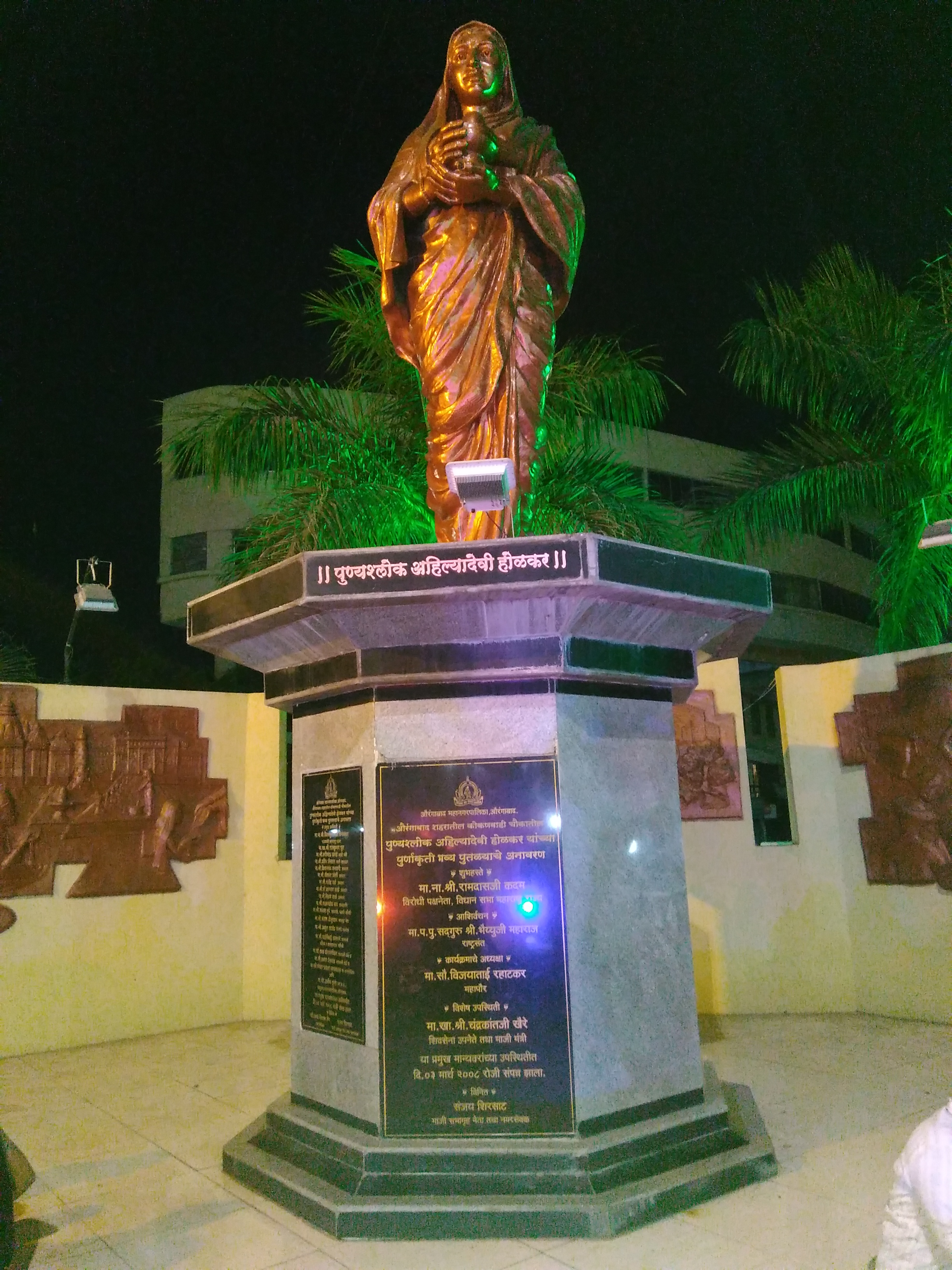 Ahilyabai Holkar statue at Kokanwadi area of Aurangabad city, in Maharashtra, India.